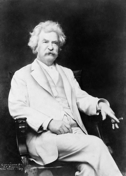 Mark Twain, three-quarter length portrait, seated, facing slightly right, with cigar in hand.